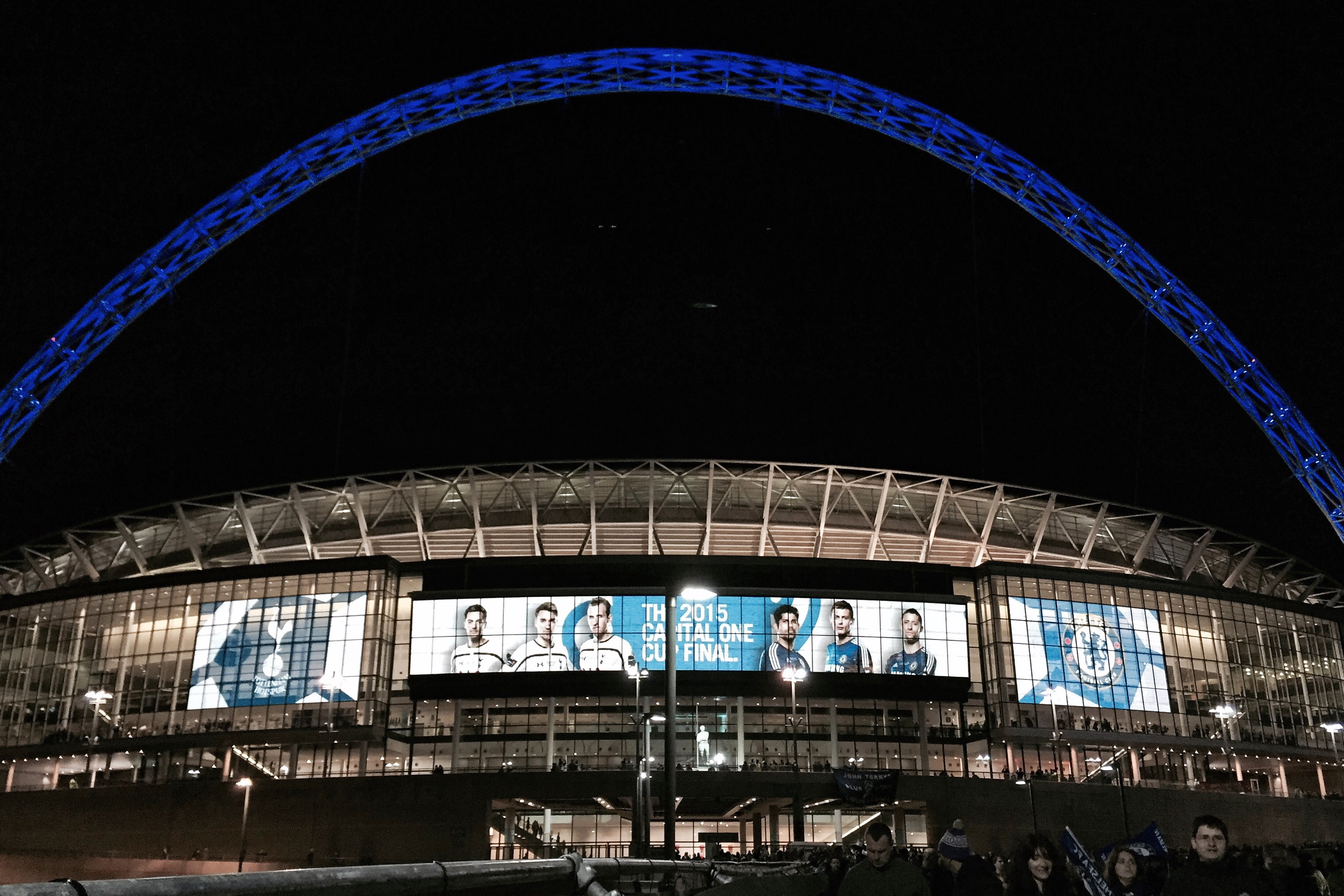 Chelsea 2 Spurs 0 - the Wembley arch is blue